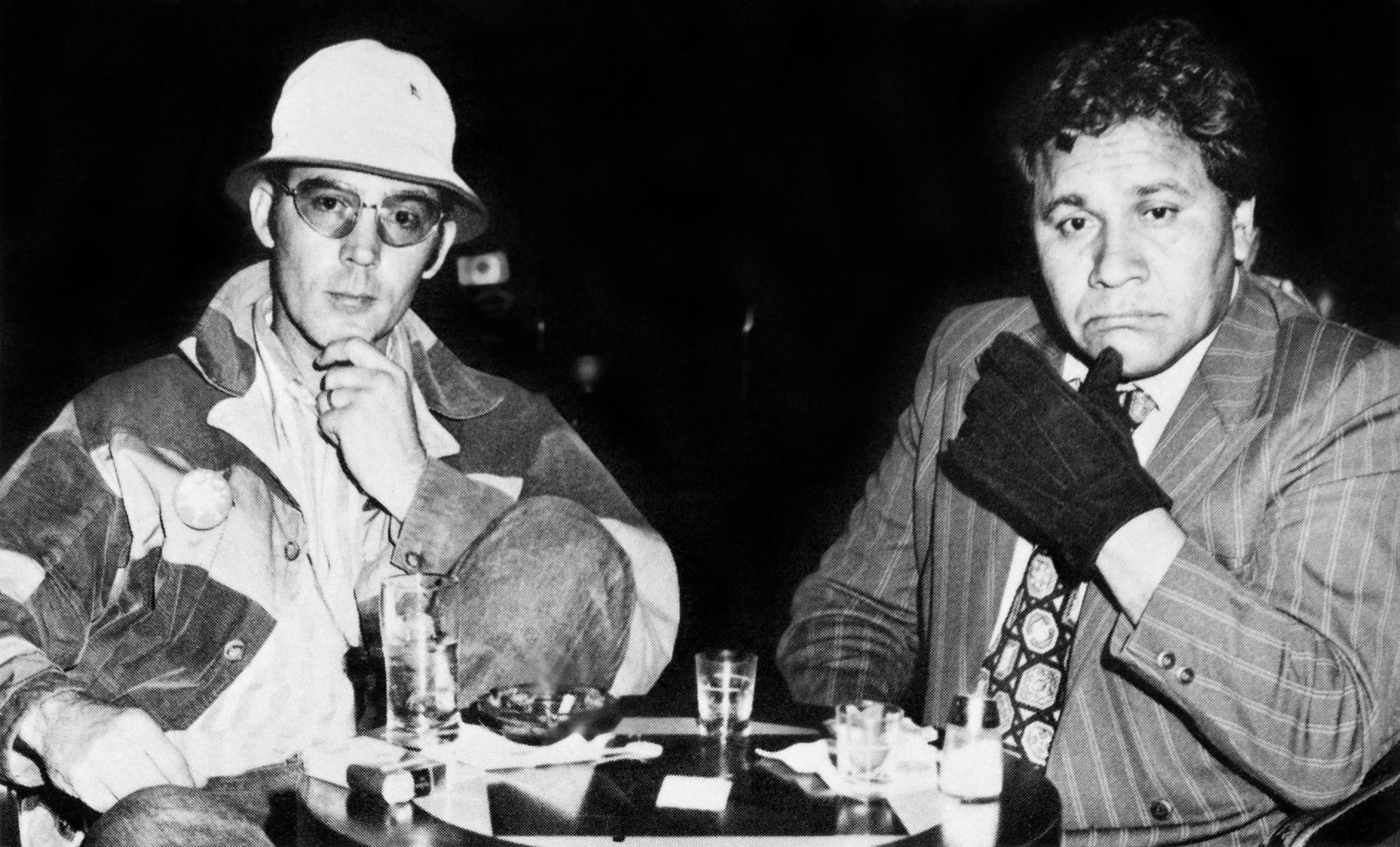 Photo portrait of Hunter S. Thompson and Oscar Zeta Acosta in the Baccarat Lounge of Caesars Palace in Las Vegas, Nevada.